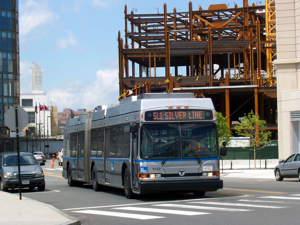 MBTA Silver Line Neoplan-USA/Škoda dual-mode diesel bus/trackless trolley #1132 at Northern Avenue and Starboard Way in Boston, Massachusetts, operating to South Station from Logan Airport. This bus is operating in diesel mode at this time, just prior to entering under the wire.